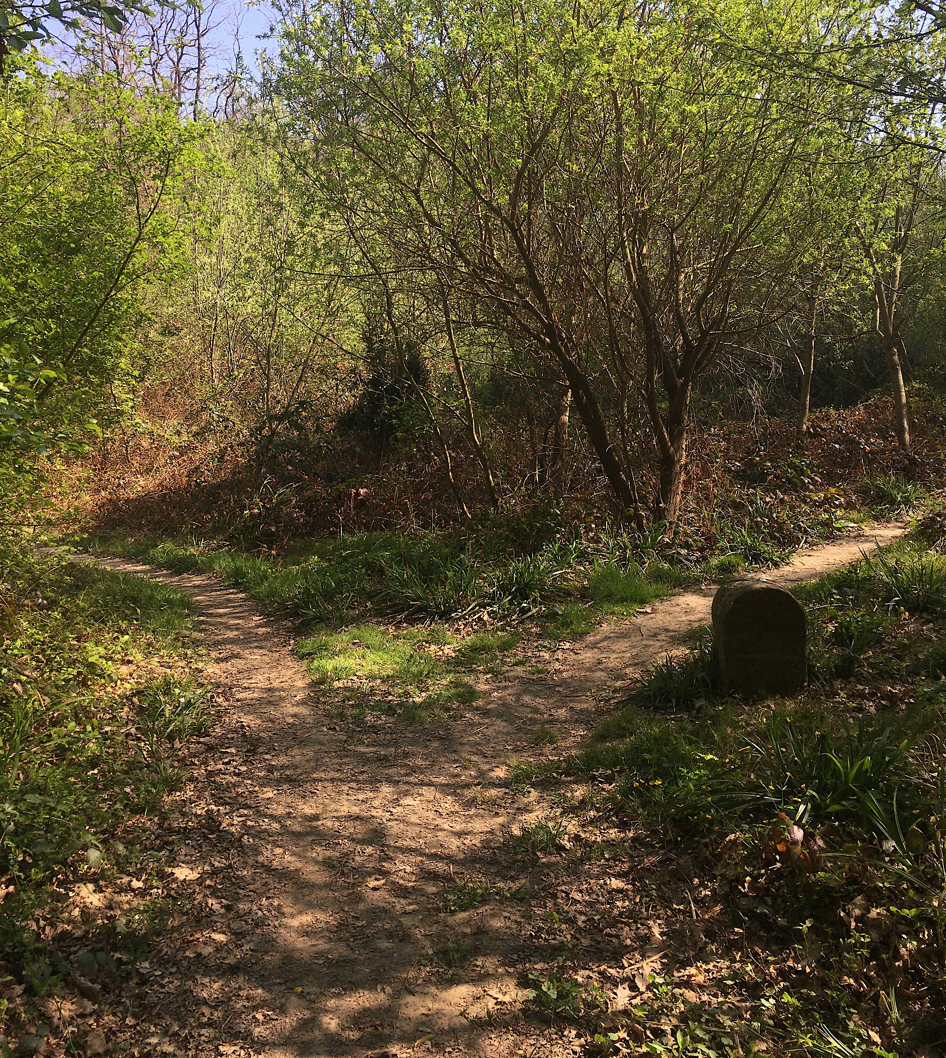 Northern entry of Benkenspitz